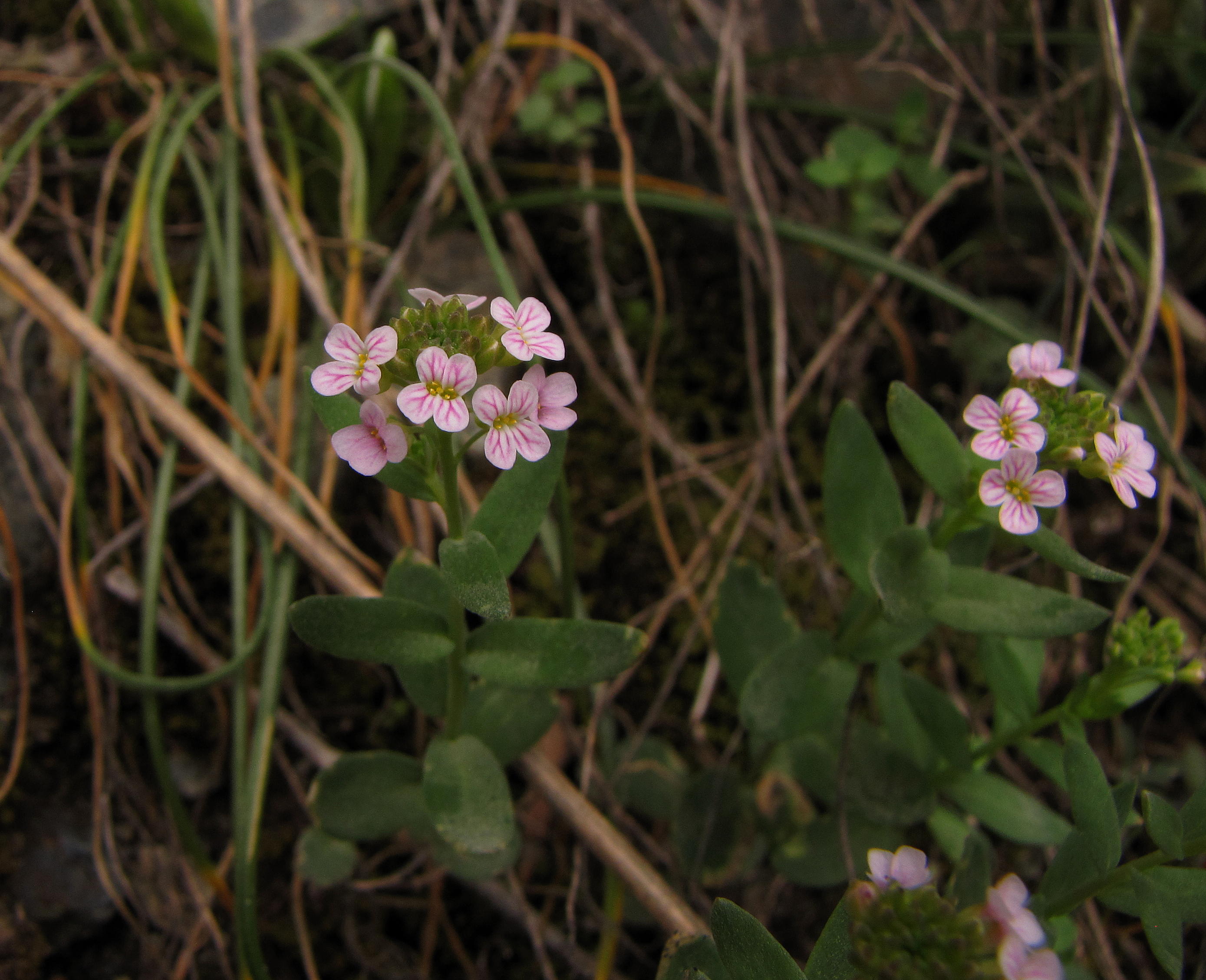 The Burnt Candytuf